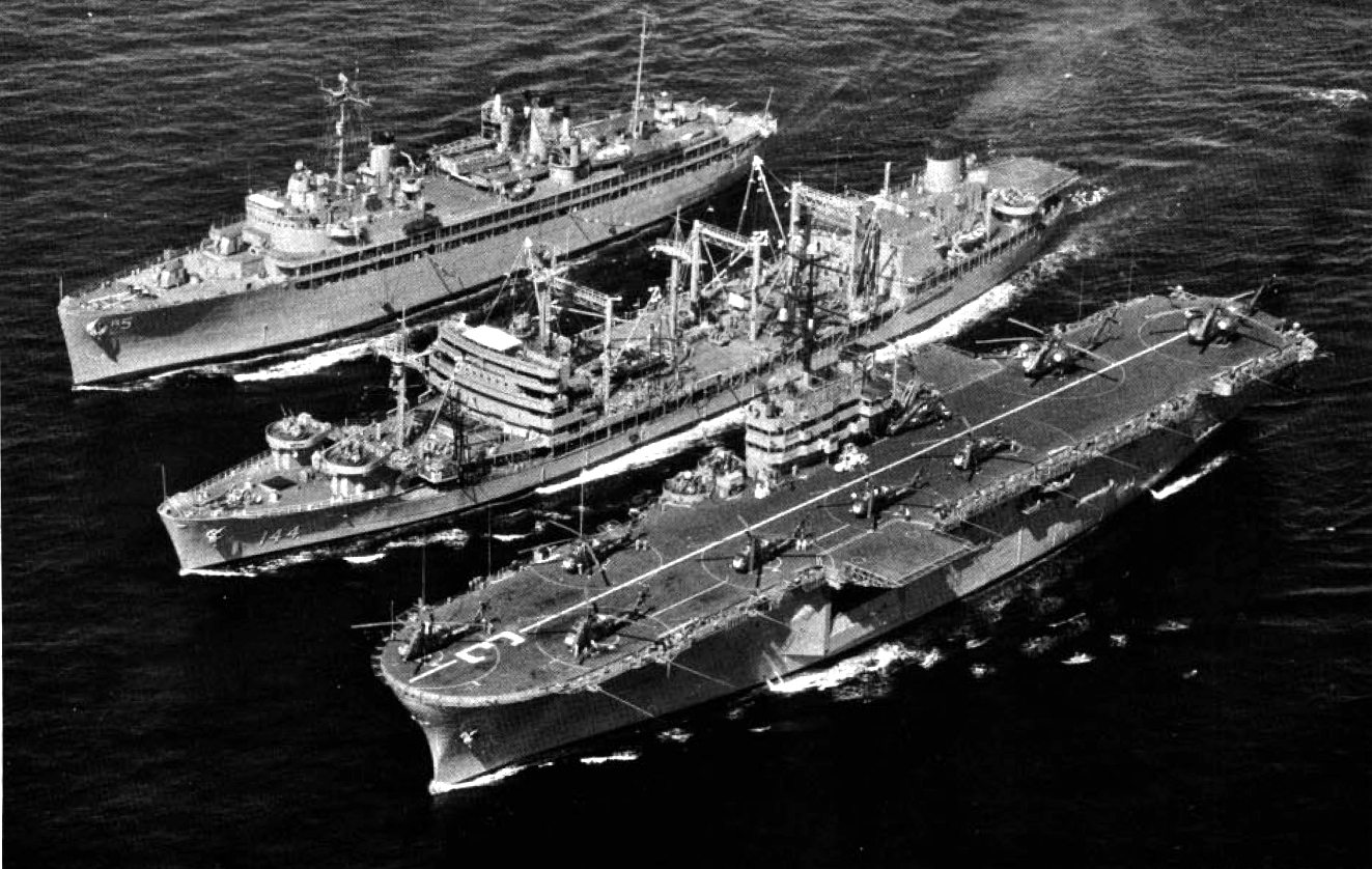 The U.S. Navy fleet oiler USS Mississinewa (AO-144) refuels the amphibious assault ship USS Okinawa (LPH-3) and the repair ship USS Vulcan (AR-5), in 1962. Okinawa was commssioned on 14 April 1962. About seven Sikorsky UH-34D Seahorse helicopters and two Sikorsky CH-37C Mojave are visible on her flight deck.